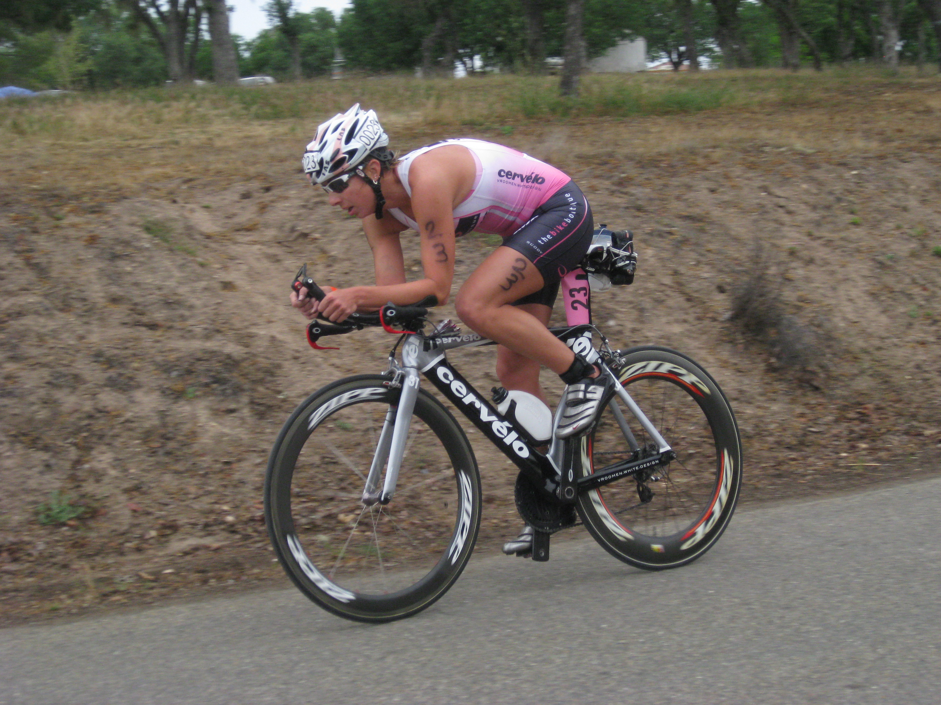 Tereza Macel at 2009 Wildflower Triathlon